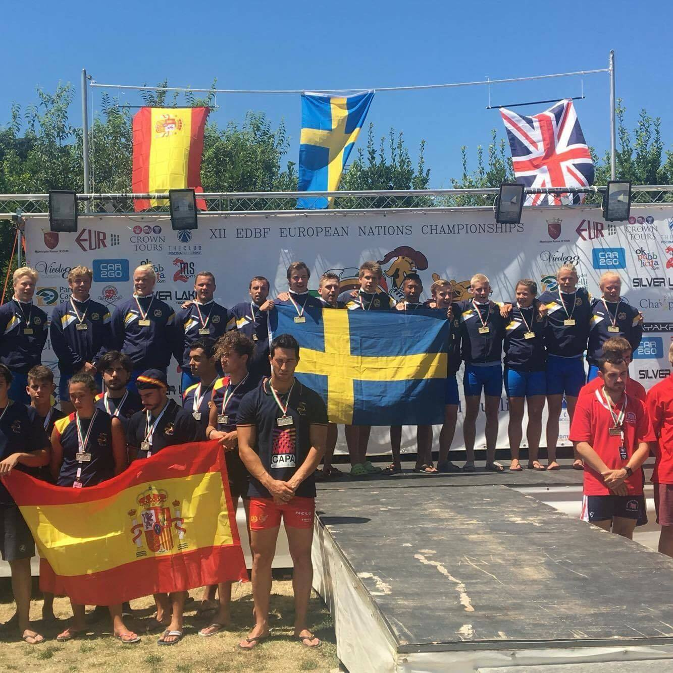 Medal Ceremony at the 2016 EDBF European Championships in Rome, Italy. U24 Small Boat Men, 200 Meter. Sweden Gold Medal. Spain Silver Medal. Great Britain Bronze Medal.